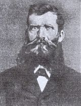 Antonin Bata, founder of dynasty Bata